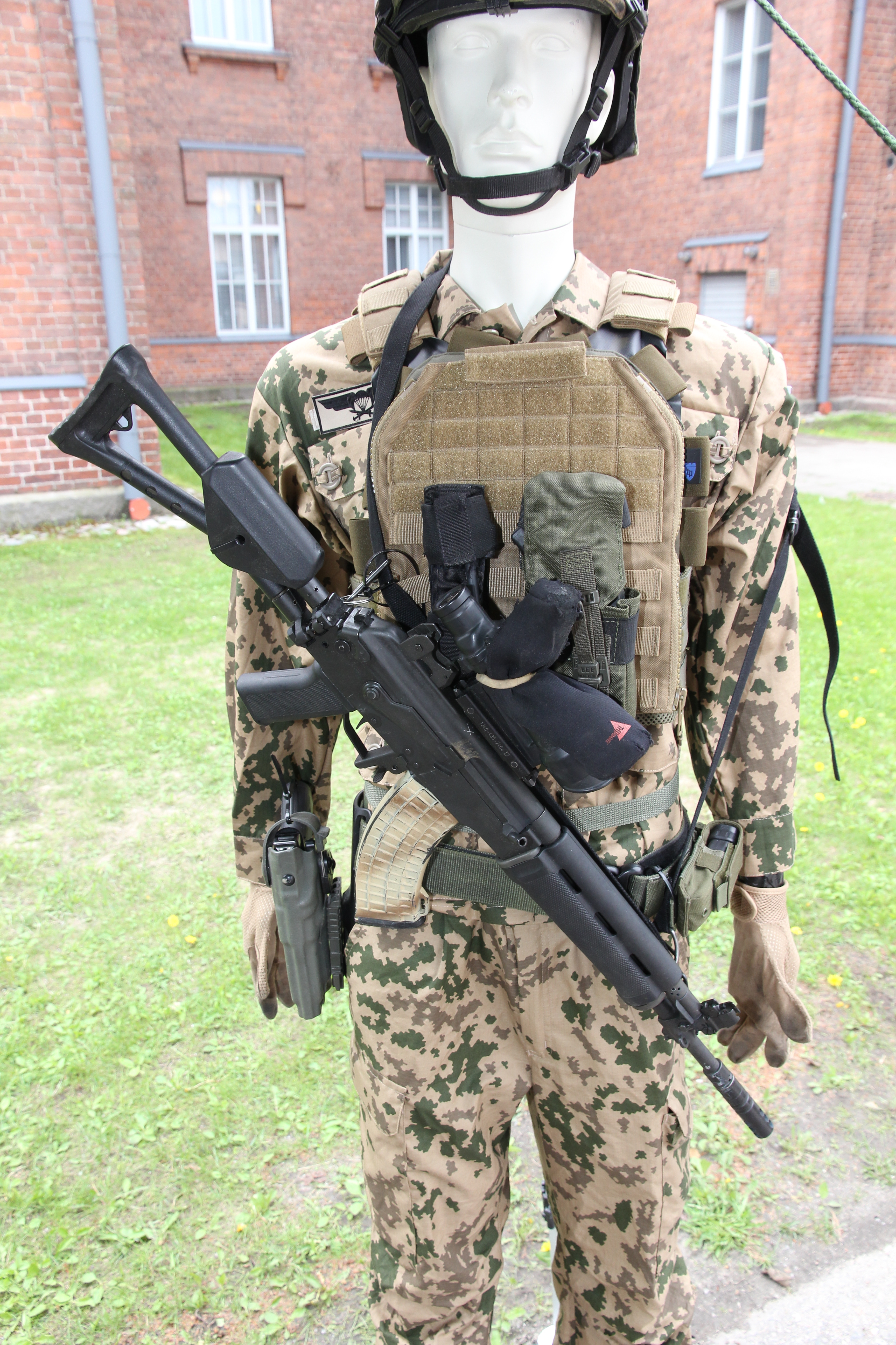 Mannequin in Finnish army desert camouflage with 7,62 RK 95 TP assault rifle with ACOG sight and Glock 17 pistol on display during Finnish Defence Forces 2014 Flag day in Lappeenranta Rakuunanmäki.